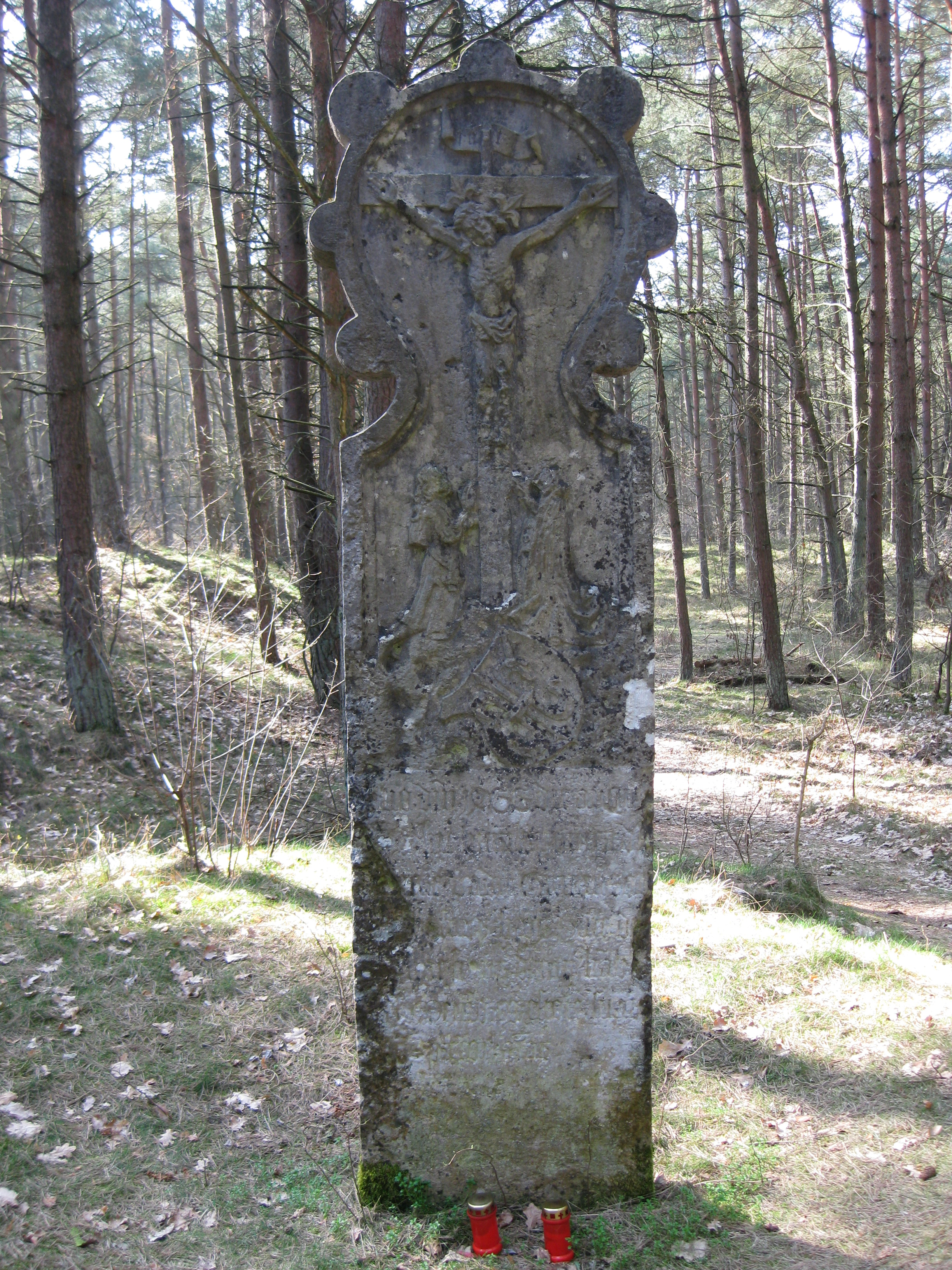 Pomertstein near Herrnburg, municipality of Lüdersdorf